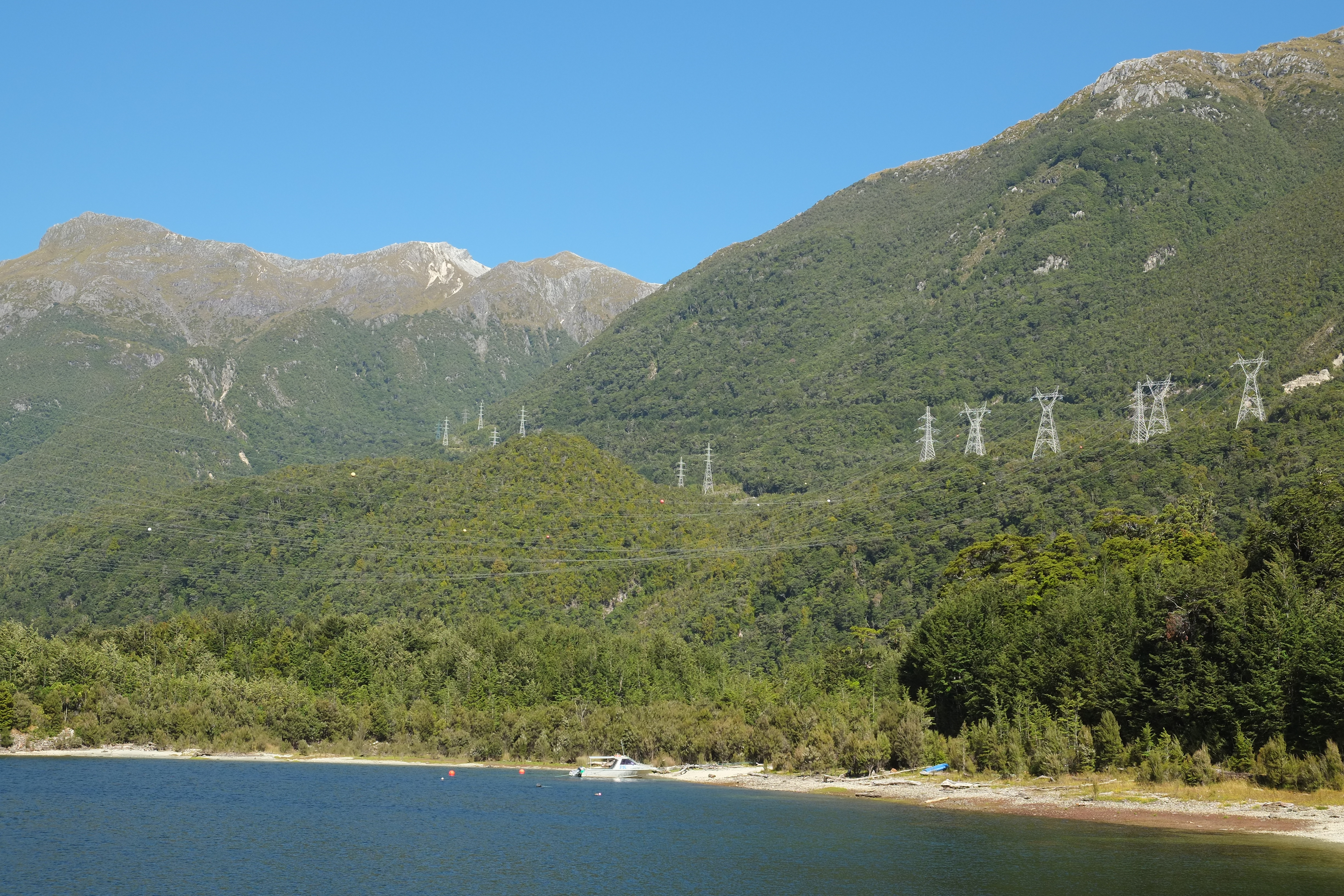 220kV high-voltage overhead power lines leading from Manapouri hydroelectric power station across Lake Manapouri and over the mountains